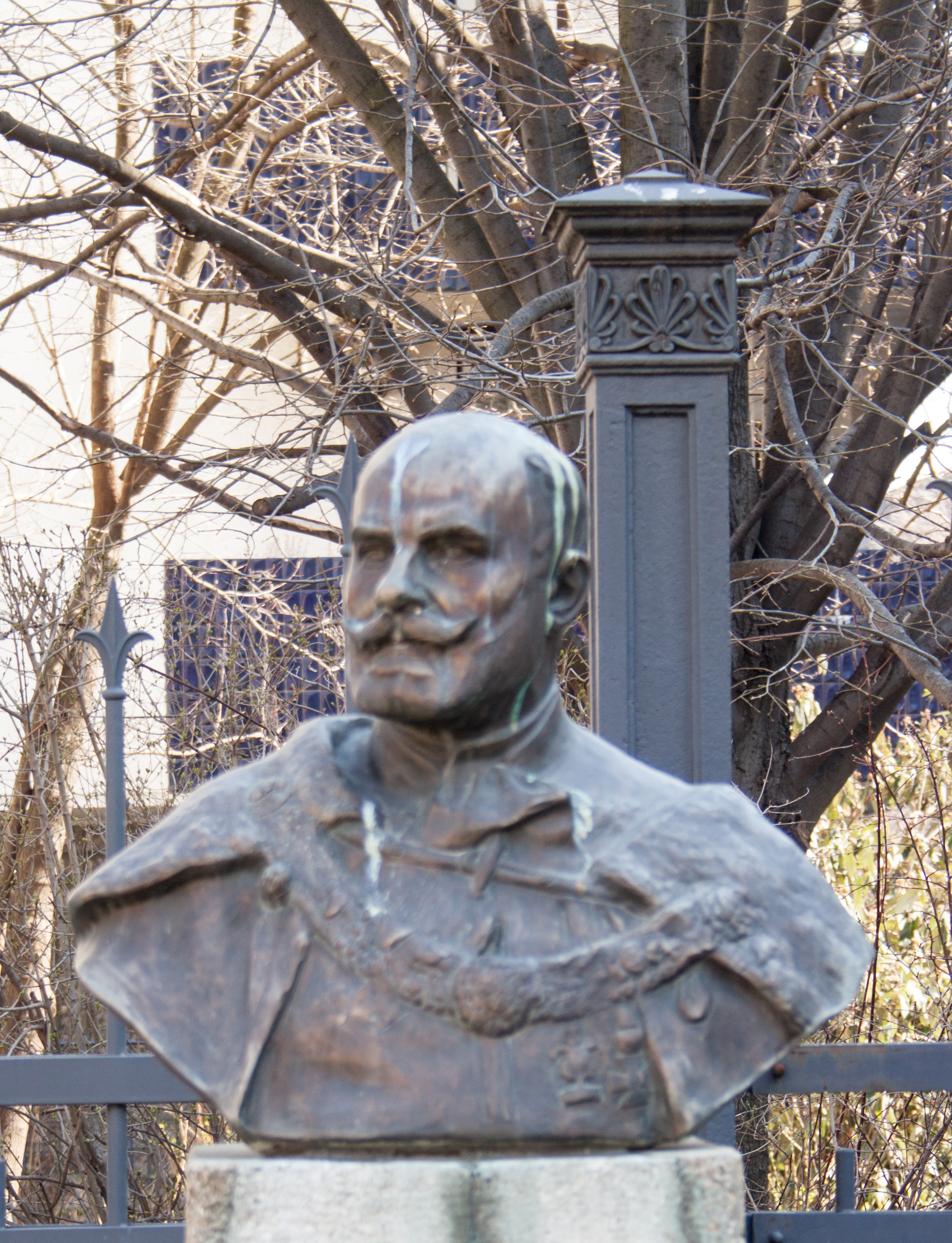 Bust of Antal Kerpelylabel QS:Len,"Bust of Antal Kerpely" label QS:Lhu,"Kerpely Antal mellszobra"